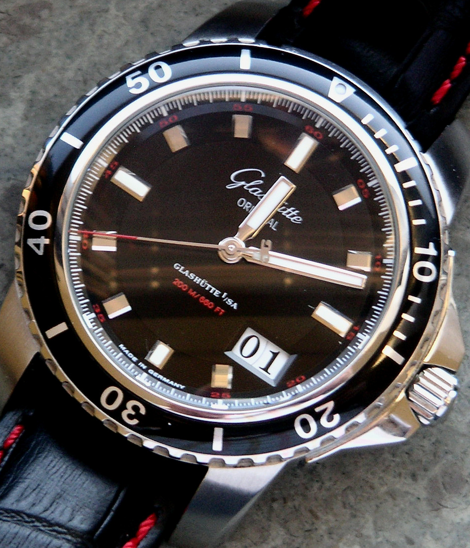 Glashütte Original Sport Evolution Panoramadate